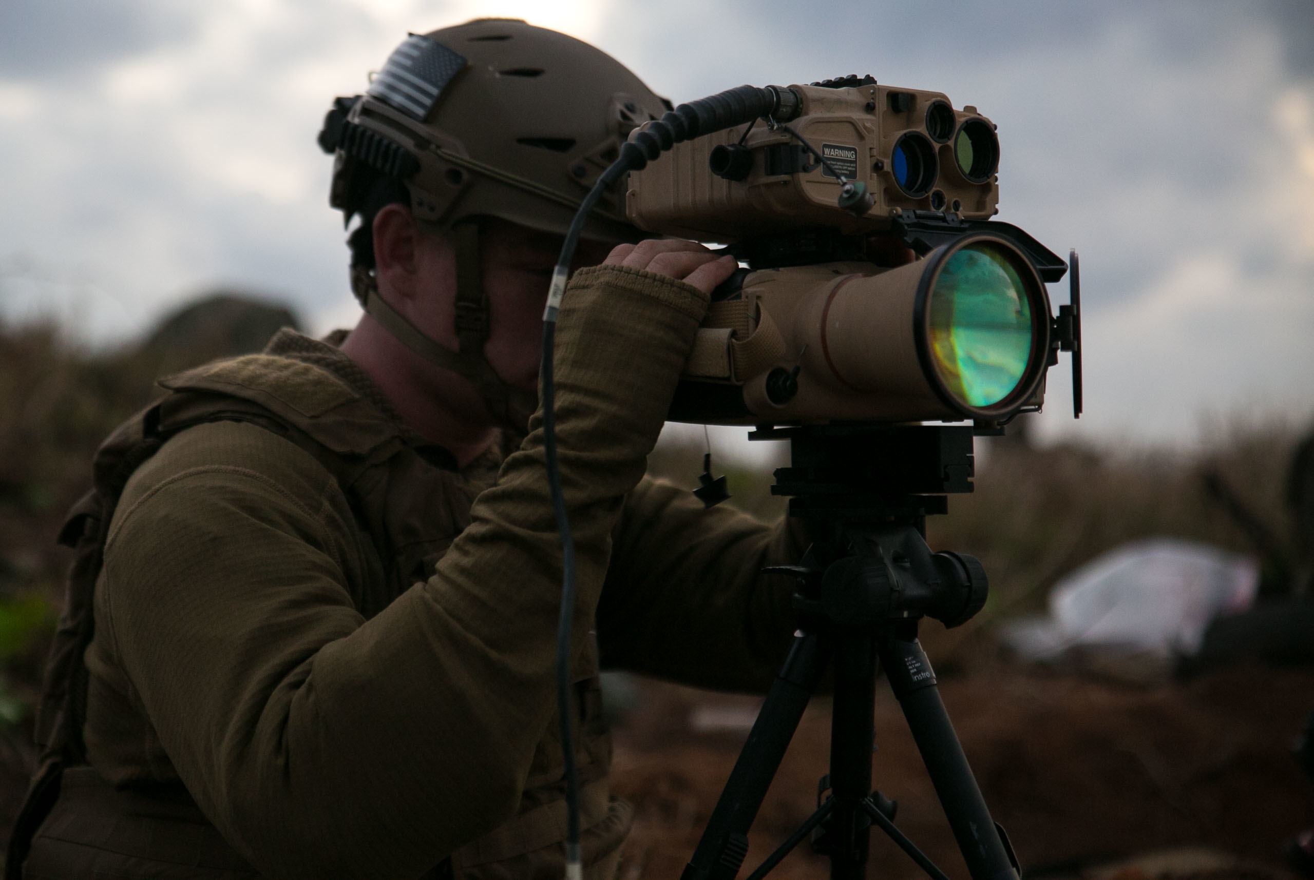 U.S. Marine Cpl. Craig Lewis, a communications chief with the 5th Air Naval Gunfire Liaison Company, uses two stacked devices, (on the top) the joint terminal attack controller laser targeting device and (on the bottom) the PAS-25, a thermal optic to see at night, Jan. 13 at Idesuna-Jima range W-174, Okinawa, Japan. Marines effectively combine the devices' capabilities to mark targets at night with a laser so pilots know where to attack. Lewis is from Gilbert, Ariz., and is with the 5th ANGLICO detachment assigned to the 31st Marine Expeditionary Unit. (U.S. Marine Corps photo by Cpl. Abbey Perria/Released)